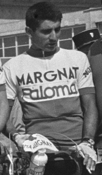 The Margnat-Paloma team at the 1964 Tour de France: Jean Anastasi, Federico Bahamontes, André Darrigade, Jean Graczyk, Esteban Martín, Claude Mattio, Jean Milesi, Joseph Novales, Eddy Pauwels and José Segú.